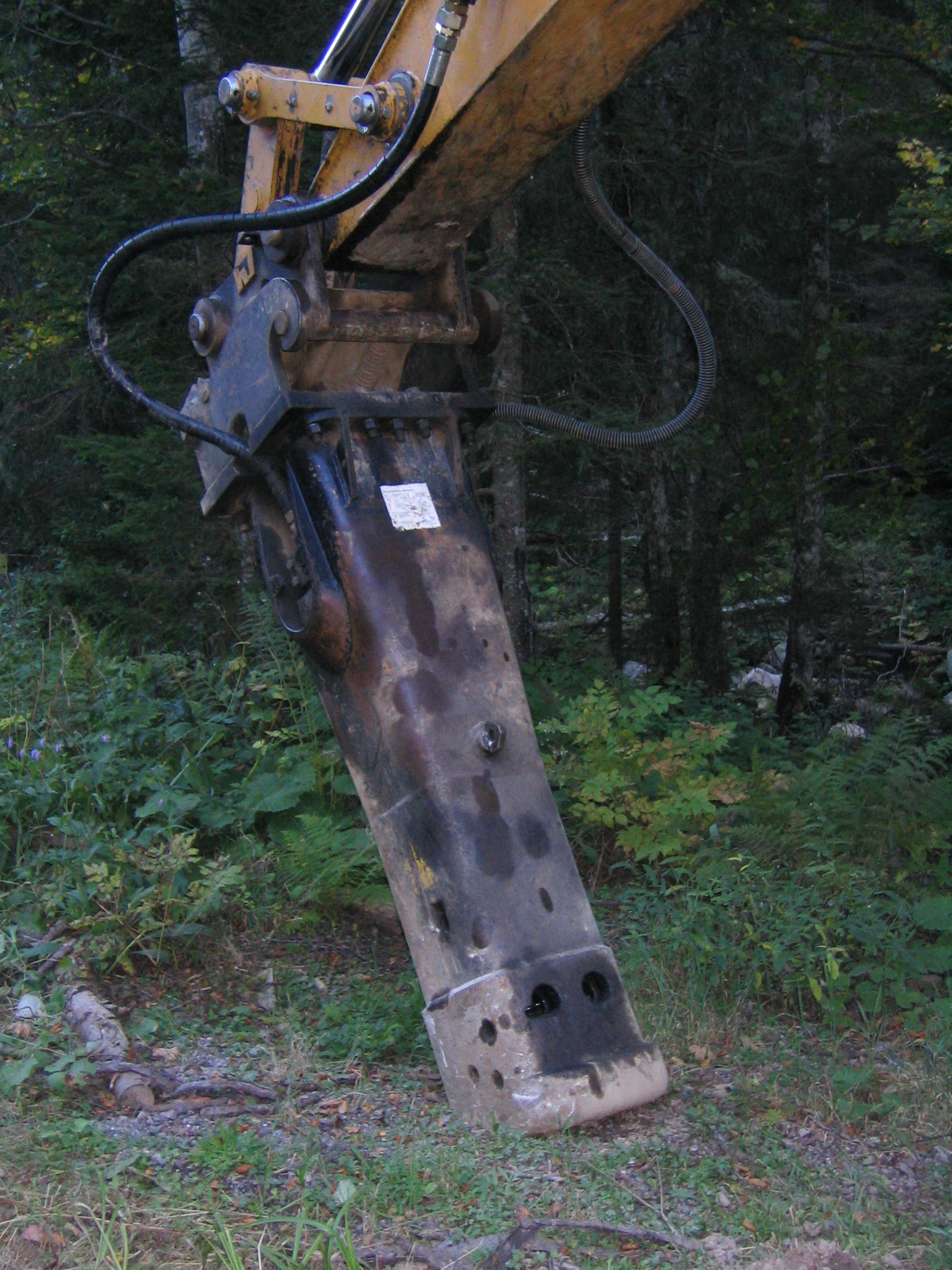 CATERPILLAR (CAT 325B LN?) tracked hydraulic excavator with hydraulic hammer on a forest trail.